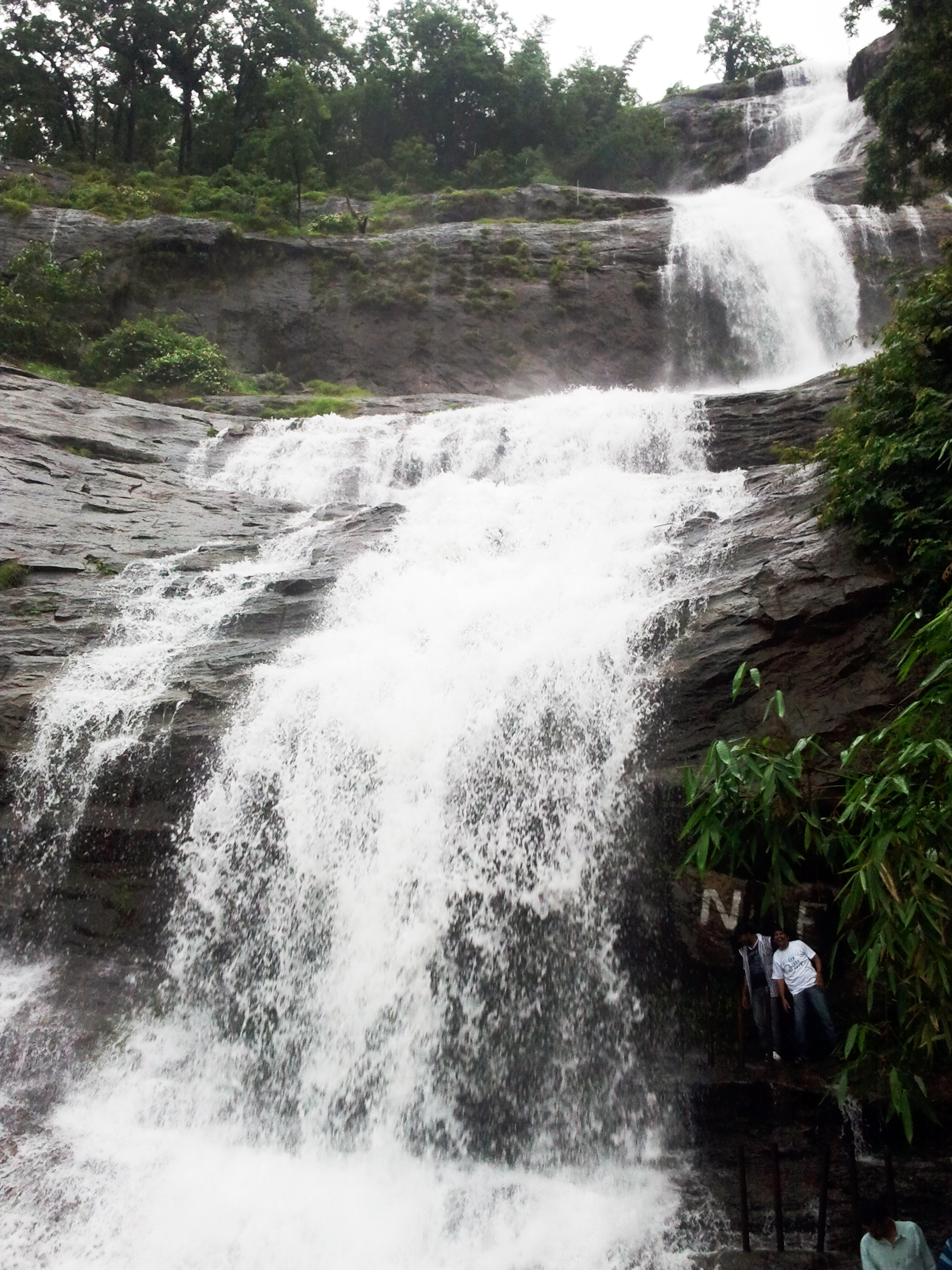 Cheeyappara Waterfalls Adimaly kerala